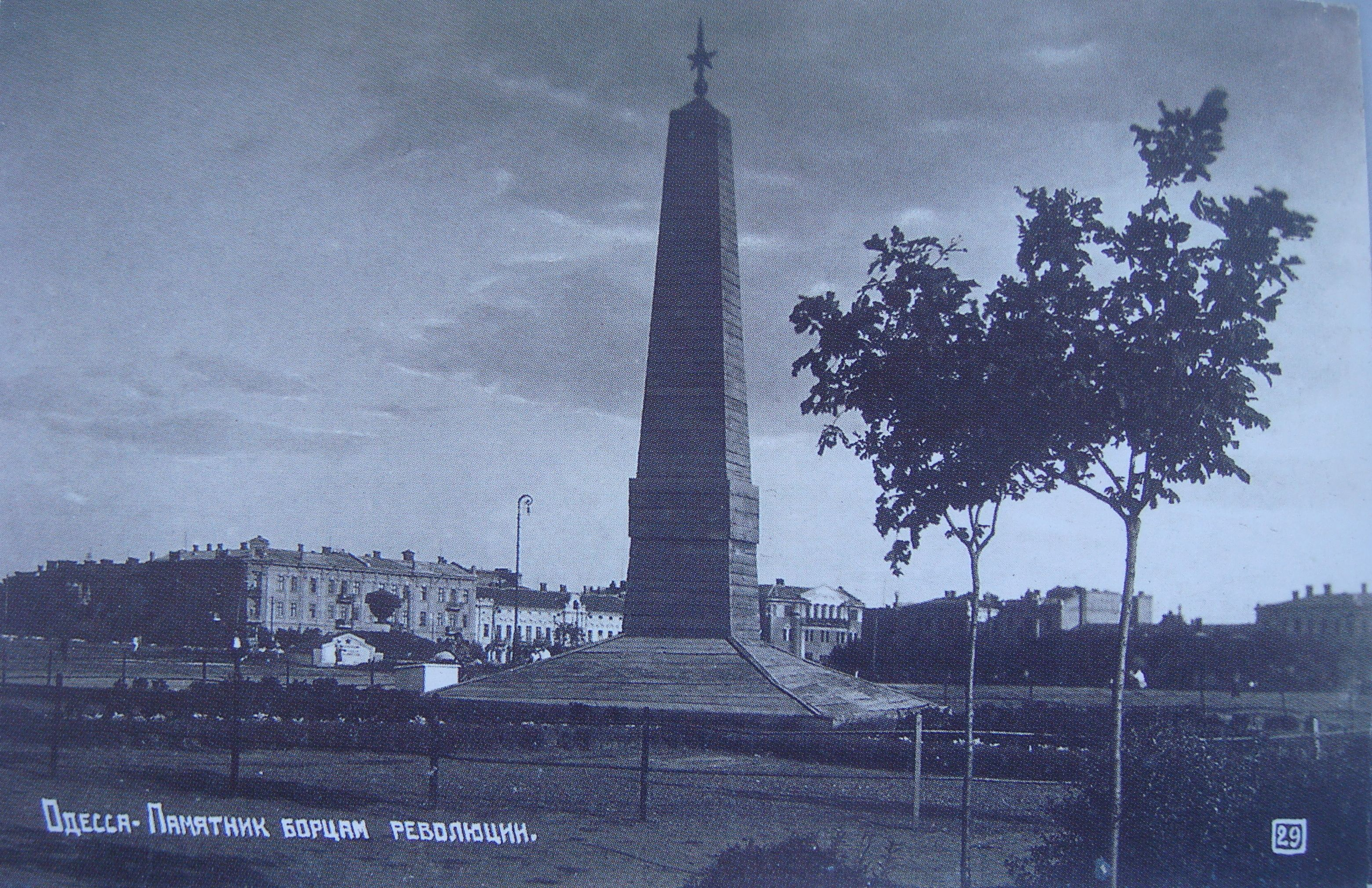 Soviet Open Letter (Carte Postale). Monument dedicated to "Heroues of Revolution" in Odessa. Was erected at Kulikovo Pole Square. Was destroyed during nazy occupation of Odessa (1941-1944)